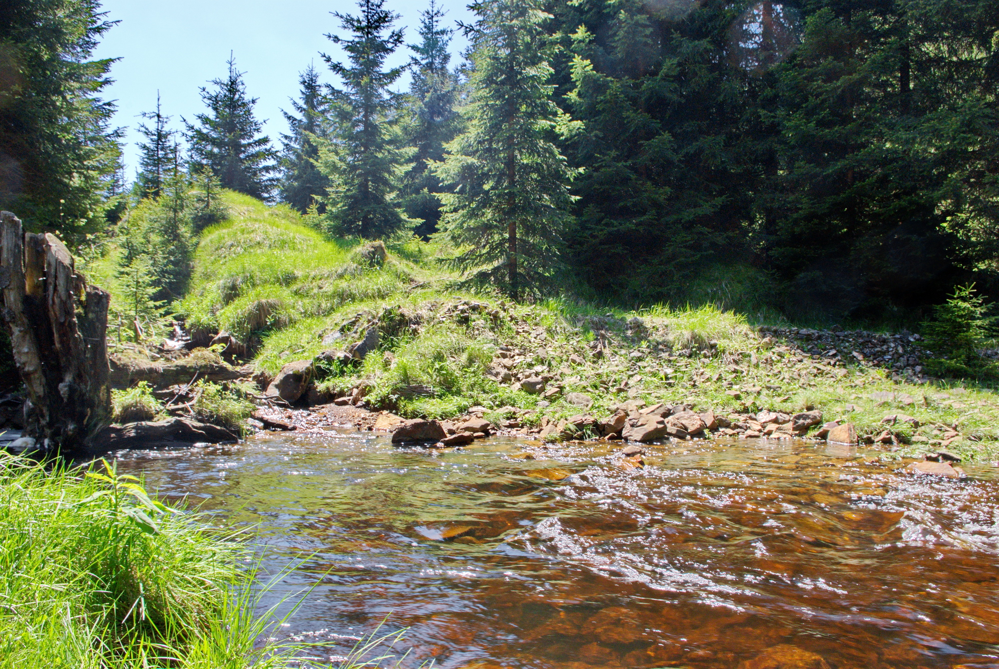 Řeka Černá v Krušných horách u staré štoly Erzengel Gabriel, nedaleko Rýžovny, okres Karlovy Vary